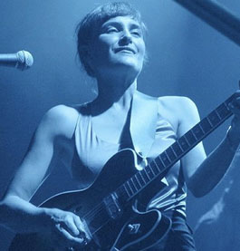 Marie Fisker singer